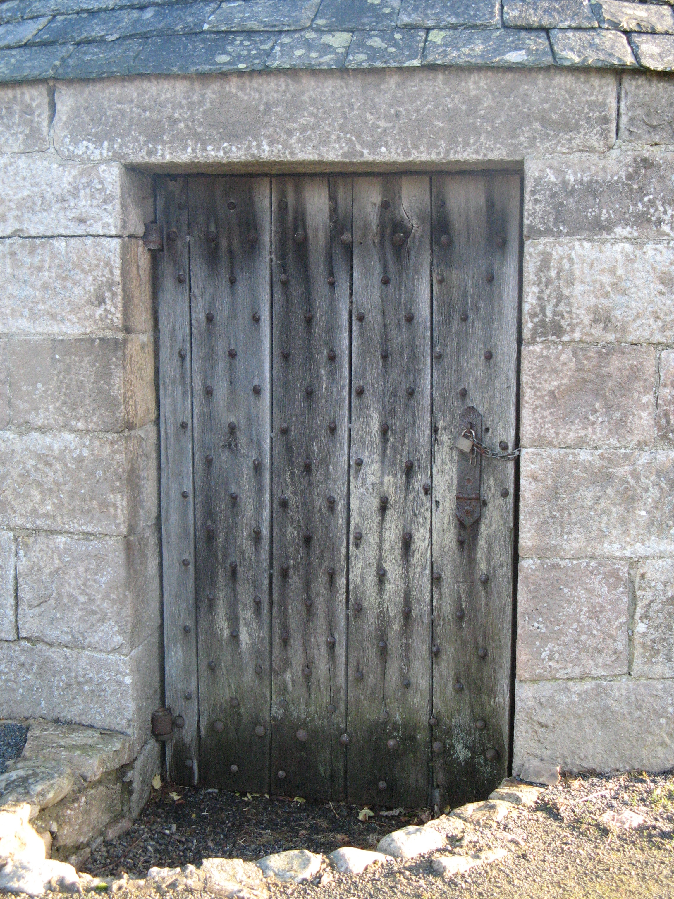 Udny Mort House, outer oak door